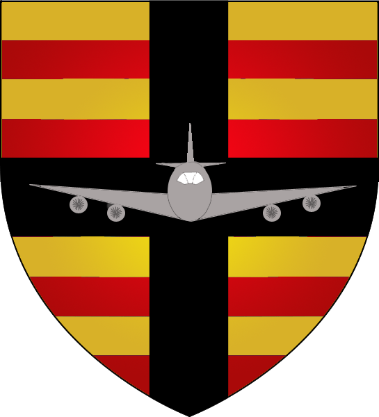 Coat of arms of the municipality of Sandweiler, Luxembourg